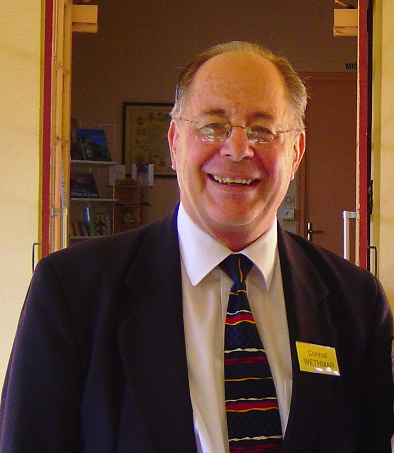 Prof. CJ Wethmar attending at Reformed Theology Conference in Aixen Province , France, 7th July in 2009